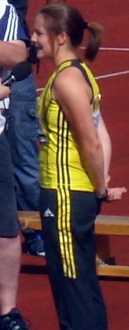 crop of Goldie Sayers from photo of her being interviewed by Catherine Merry at Crystal Palace, colour levels adjusted.